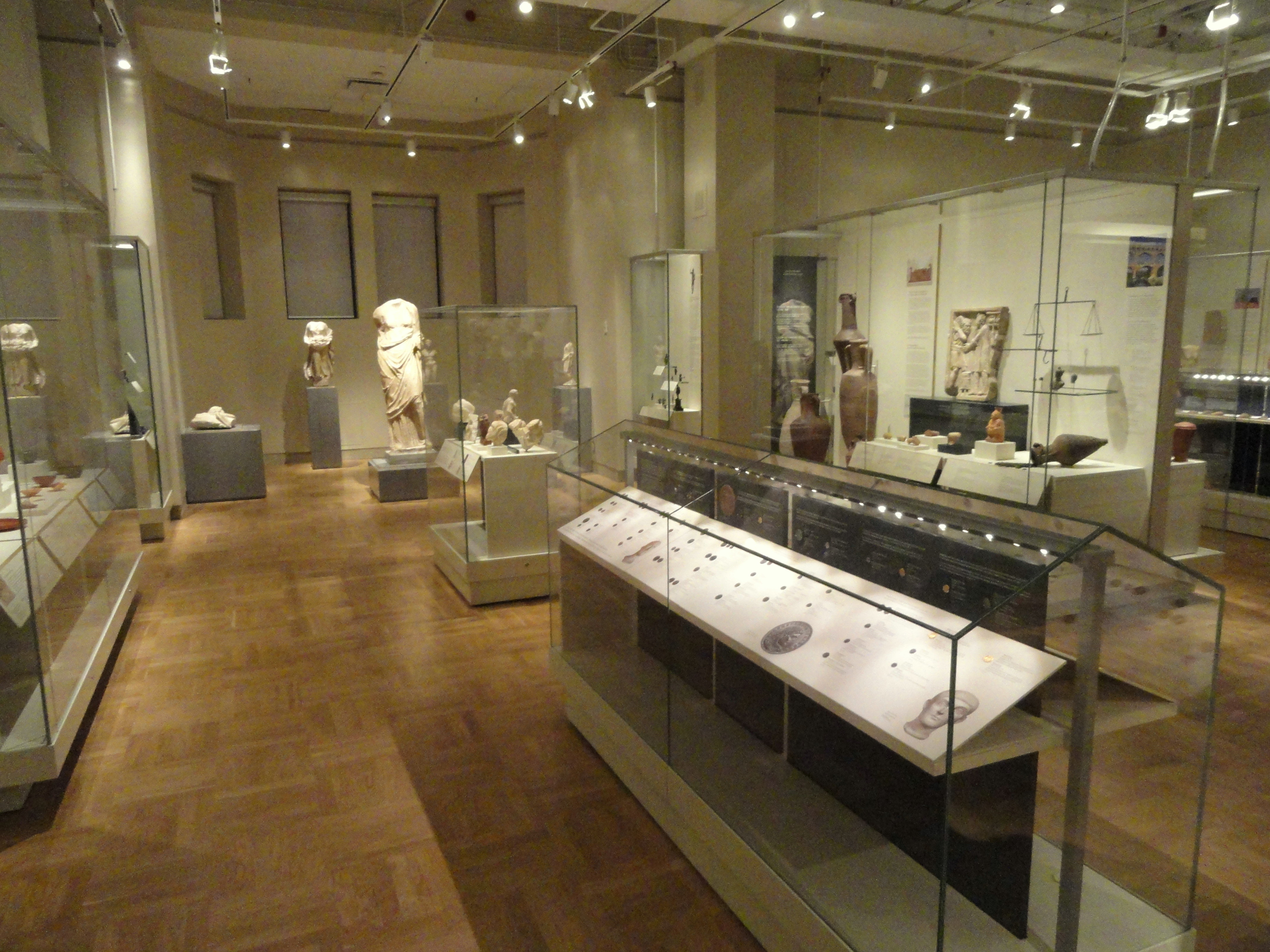 Exhibit in the Royal Ontario Museum, Toronto, Ontario, Canada. This exhibit is old enough so that it is in the public domain, and photography was permitted in the museum. I took this photograph and release it into the public domain.